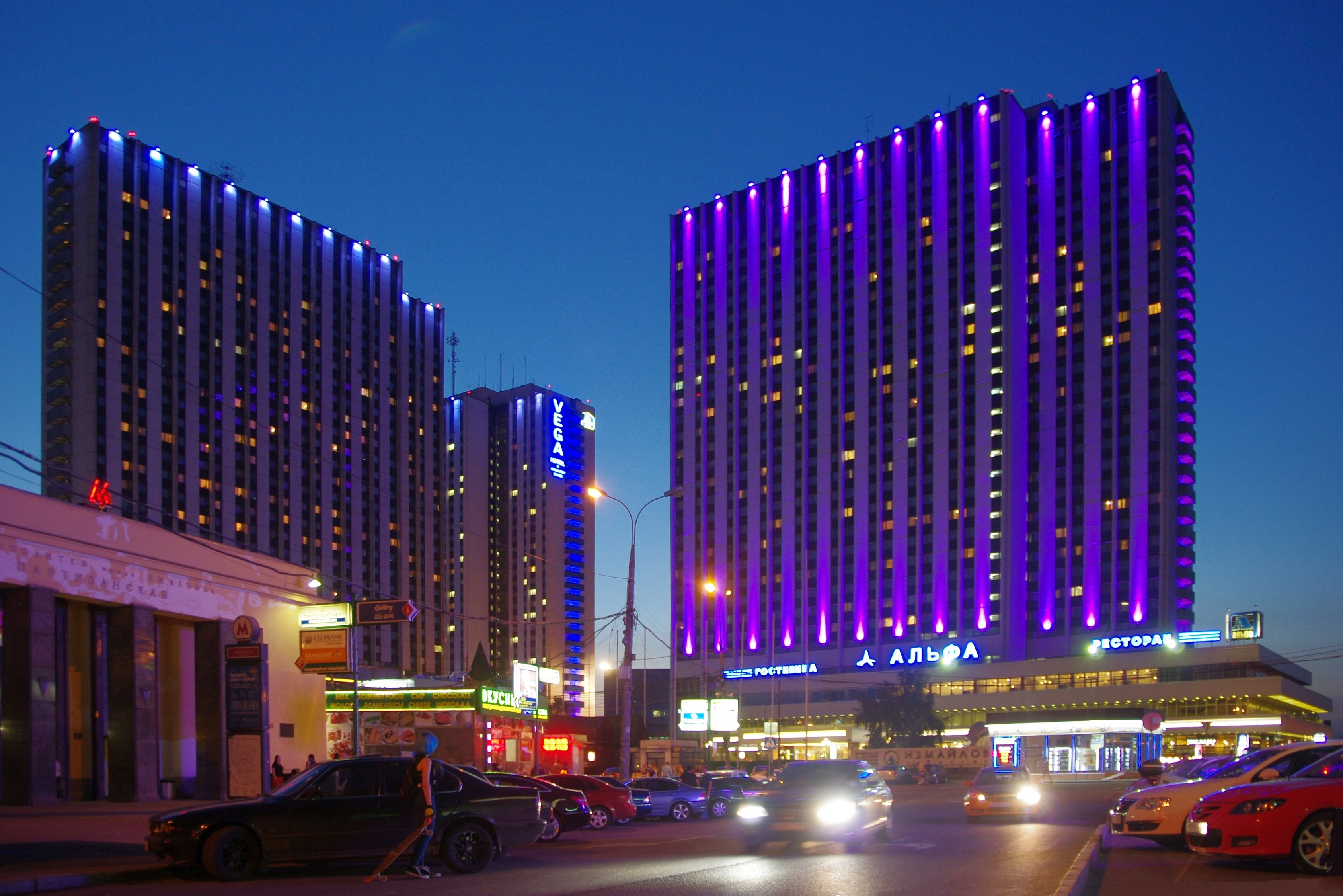 Hotel Izmailovo, view from metro entrance